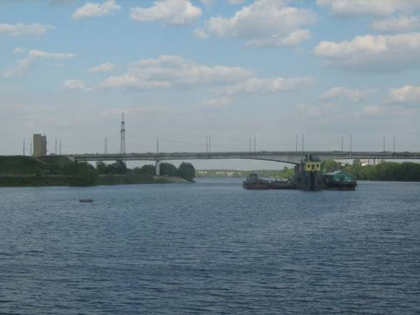 East Bridge in Tver, Russia